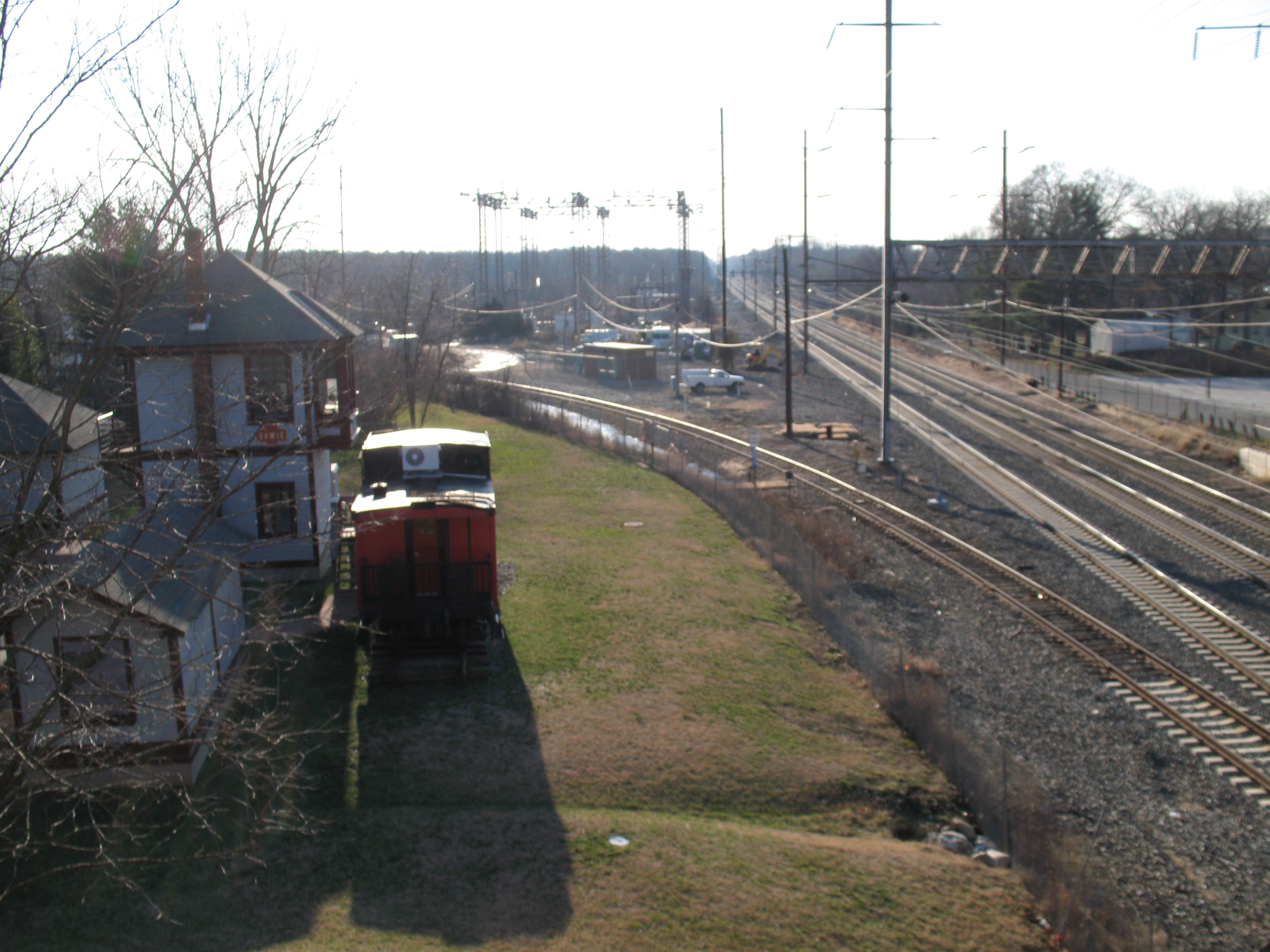 View from MD 564 over the Amtrak/MARC lines (right) and the CSX line (left), old Bowie, Maryland